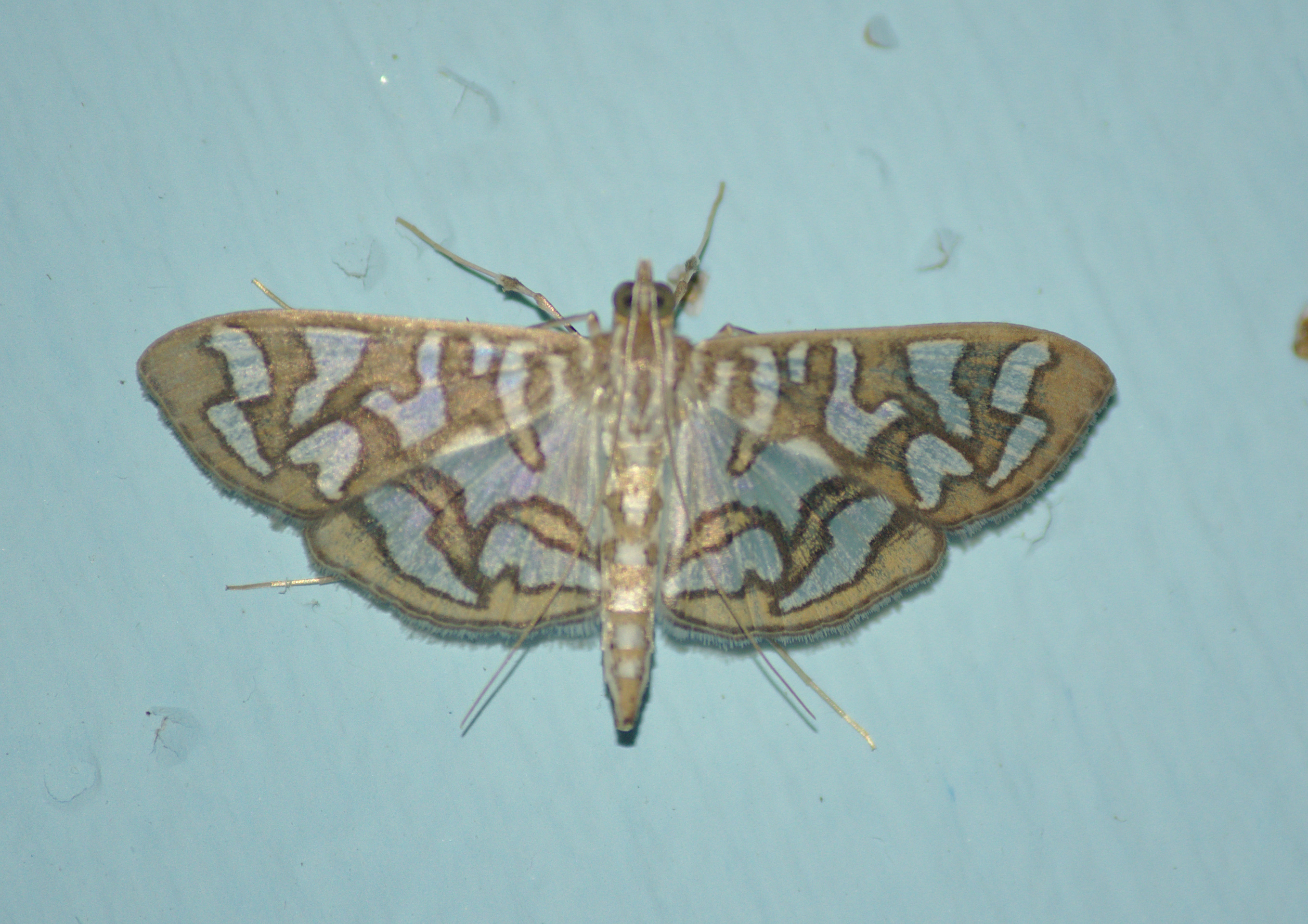 Nausinoe perspectata. Photographed near Kanjirappally, Kerala, India.